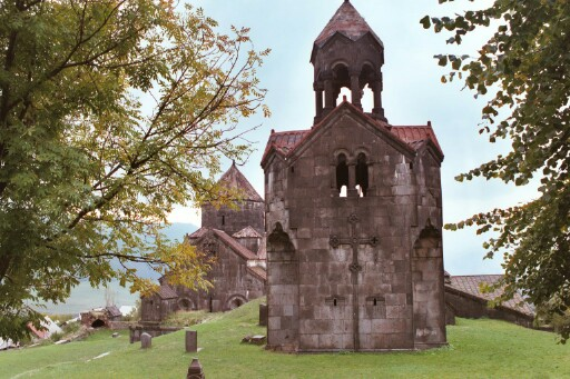 Haghpat Monastery, Armenia